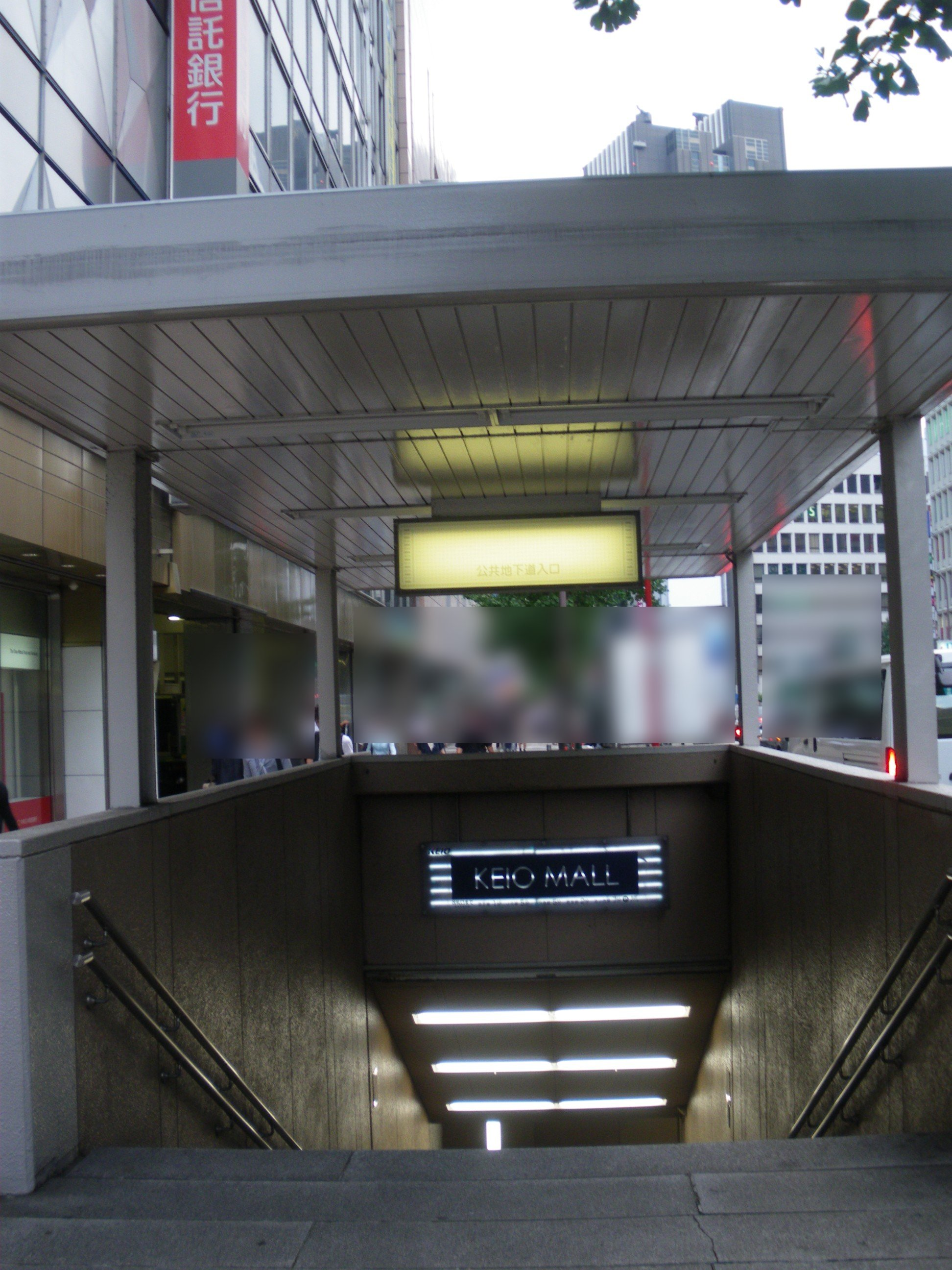 A photo of an entrance of Keio Mall (an underground mall at Shinjuku Sta.), Nishi-Shinjuku, Shinjuku-ku, Tokyo, Japan.